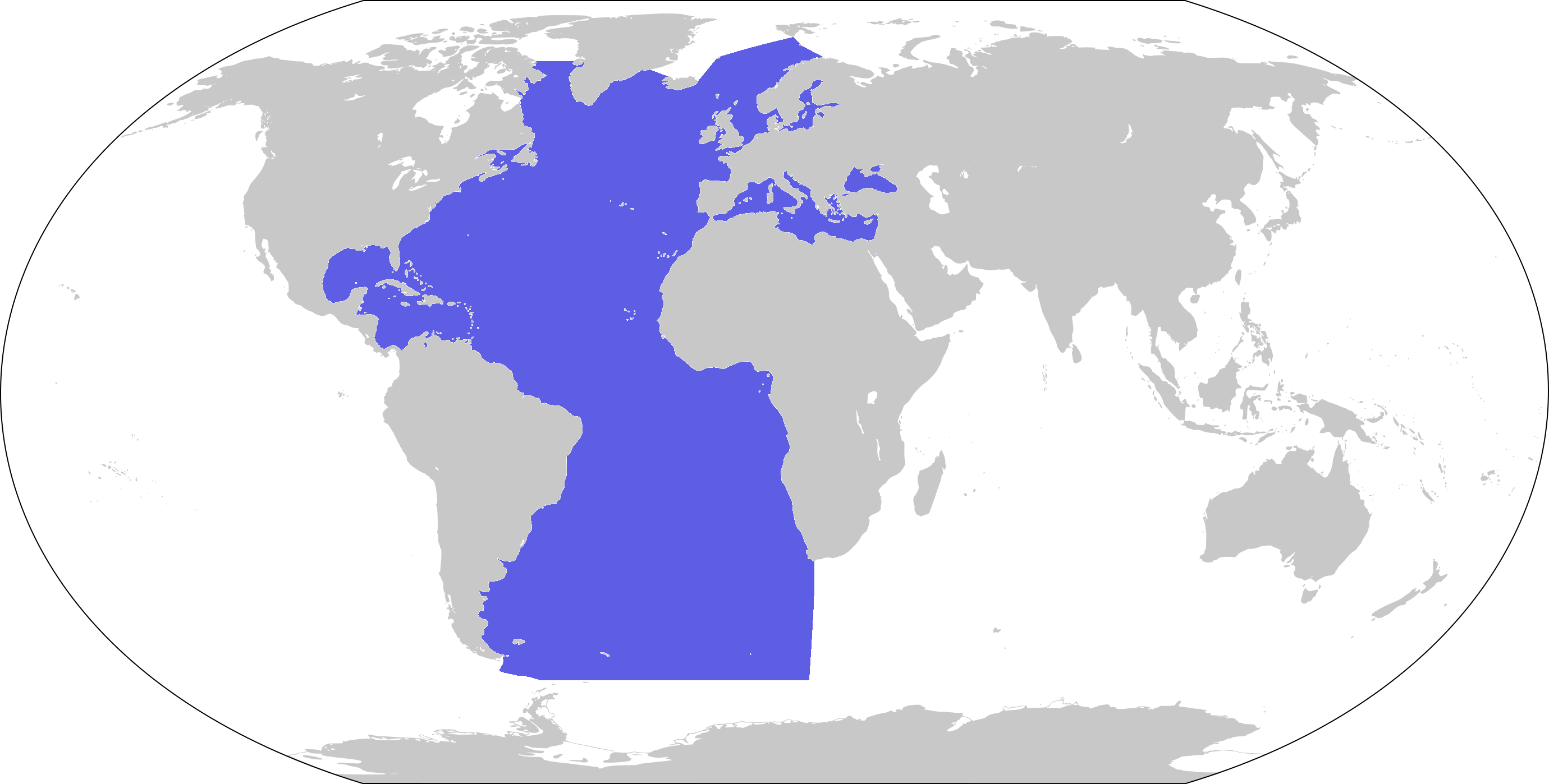 World map depicting Atlantic Ocean; map adapted from PDF World map at CIA World Fact Book